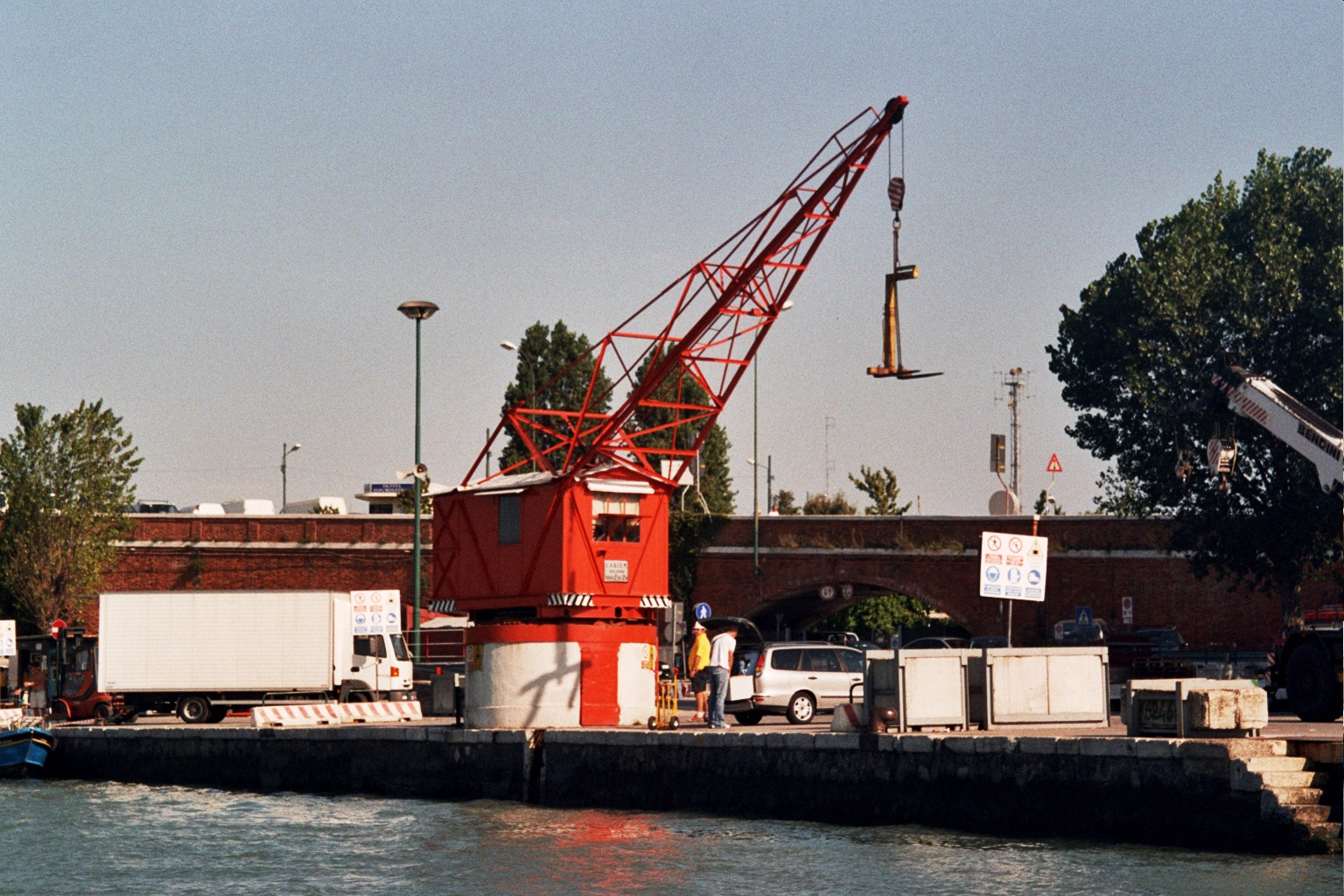 red crane in port of Venice